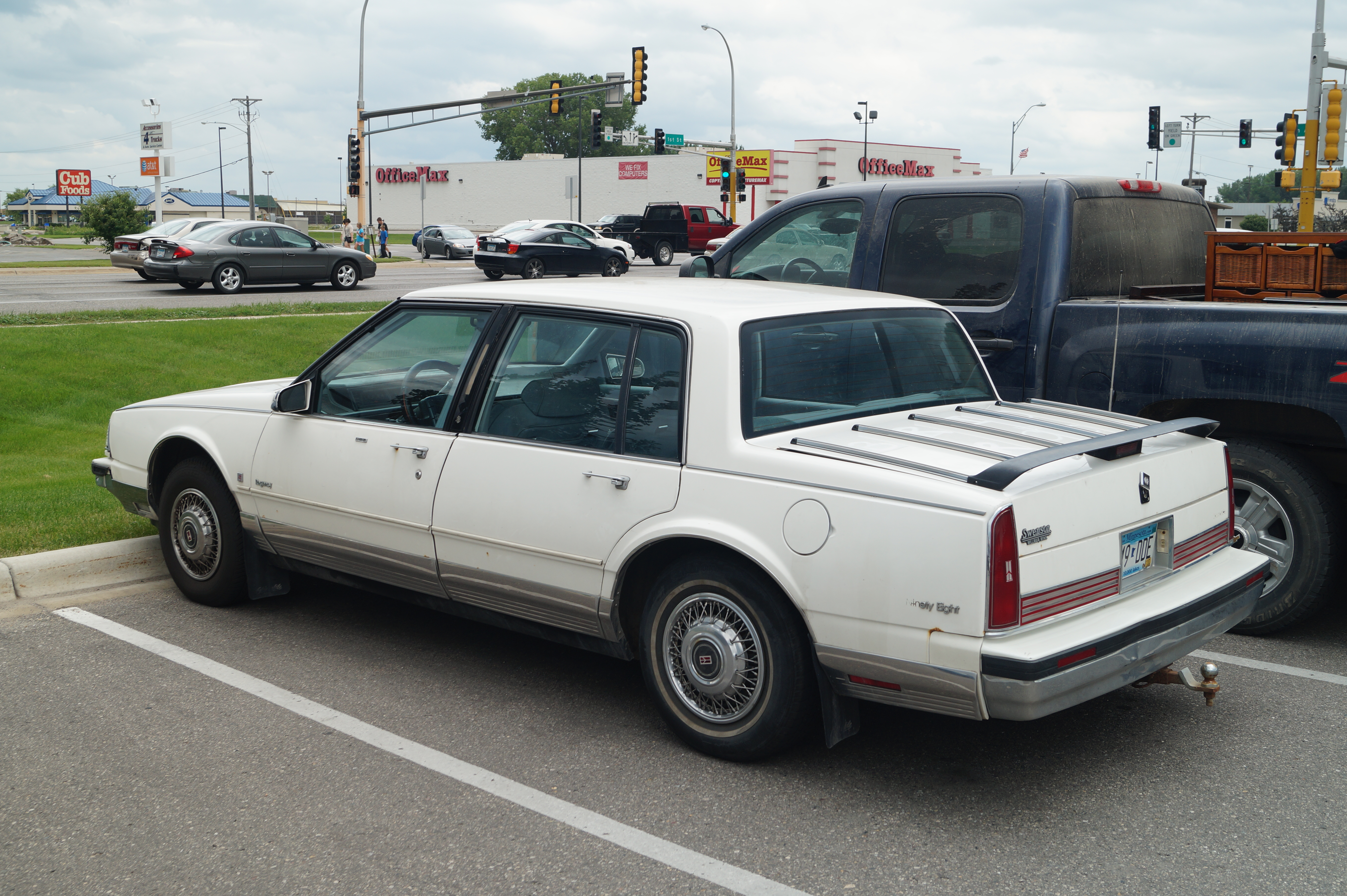 Click here for more car pictures at my Flickr site.